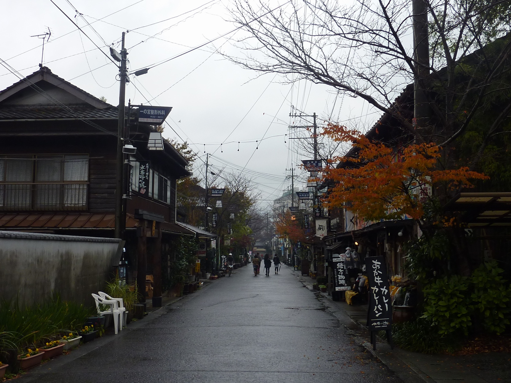 The Monzen-cho of Aso Shrine in Aso City, Kumamoto Prefecture, Japan)